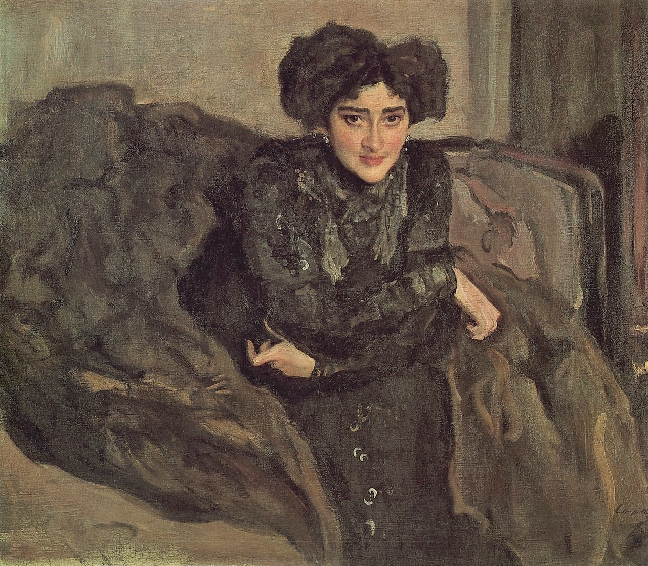 Portrait of Yevdokia Loseva. 1903. Oil on canvas. The Tretyakov Gallery, Moscow, Russia.